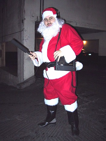 Reporter Robert Smith covering the Santarchy santa rampage in Seattle Washington. December 7, 2001. Photo taken by Jessamyn West.